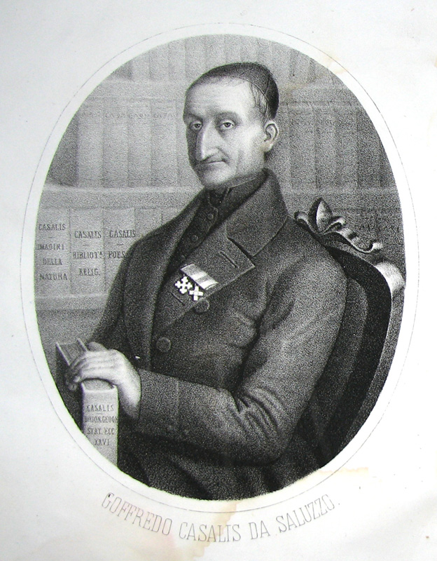 Goffredo Casalis engraving